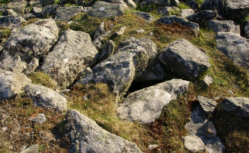 Dun a' Chaolais, a broch on Vatersay, Outer Hebrides, Scotland